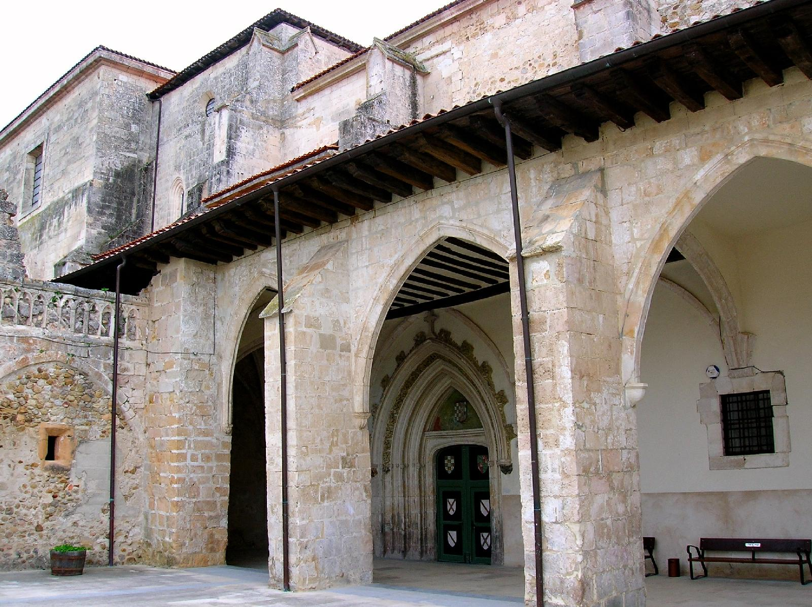 Pórtico de la iglesia del Monasterio de Santa Clara, en Medina de Pomar (Burgos, Castilla y León, España)